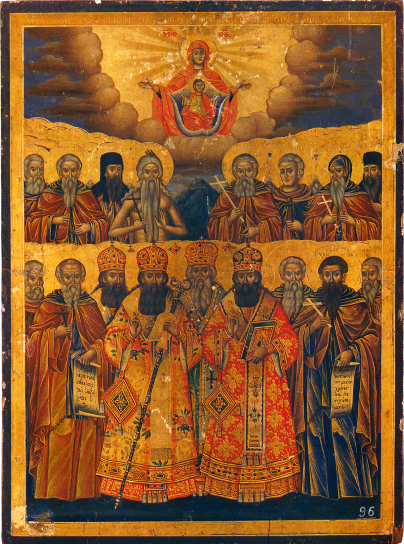 Saints of Mount Athos Icon in Protatos by Makarios from Galatista 1859